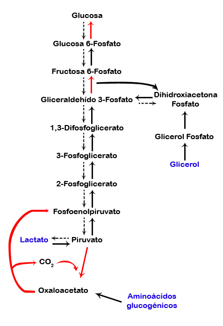 Gluconeogenesis pathway, in spanish.